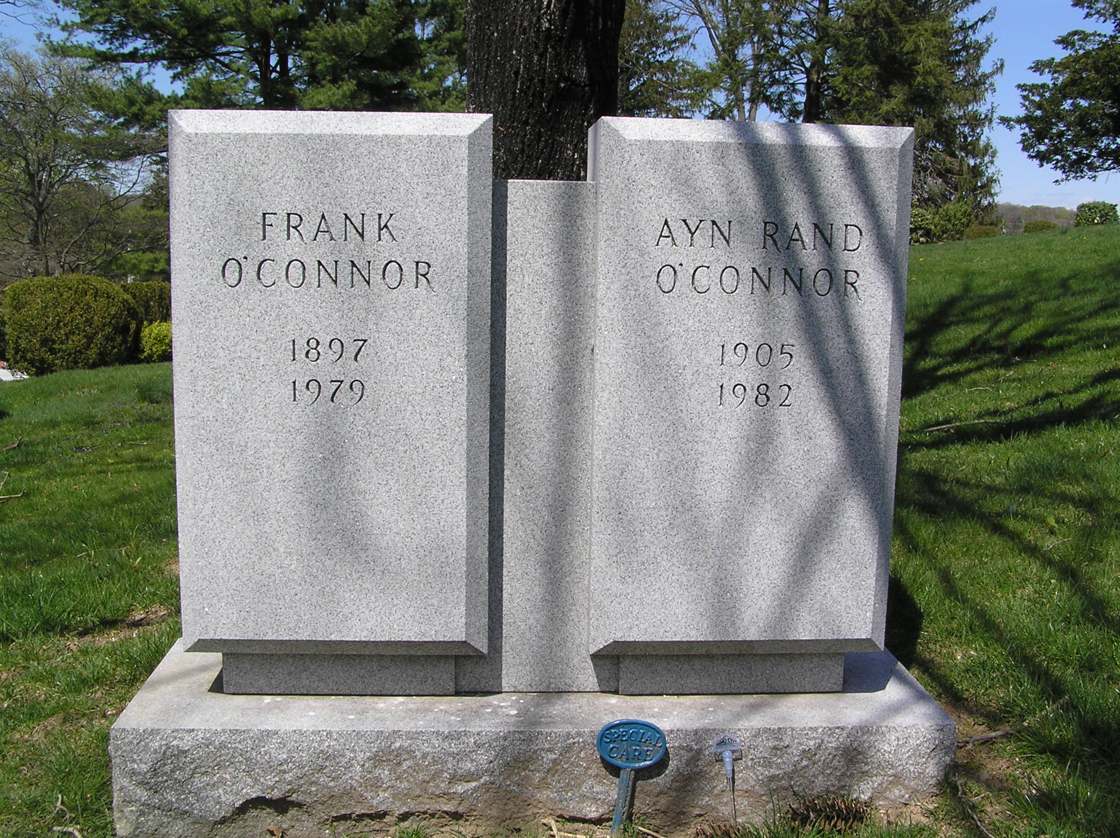 The burial location of Ayn Rand and Frank O'Connor in Kensico Cemetery